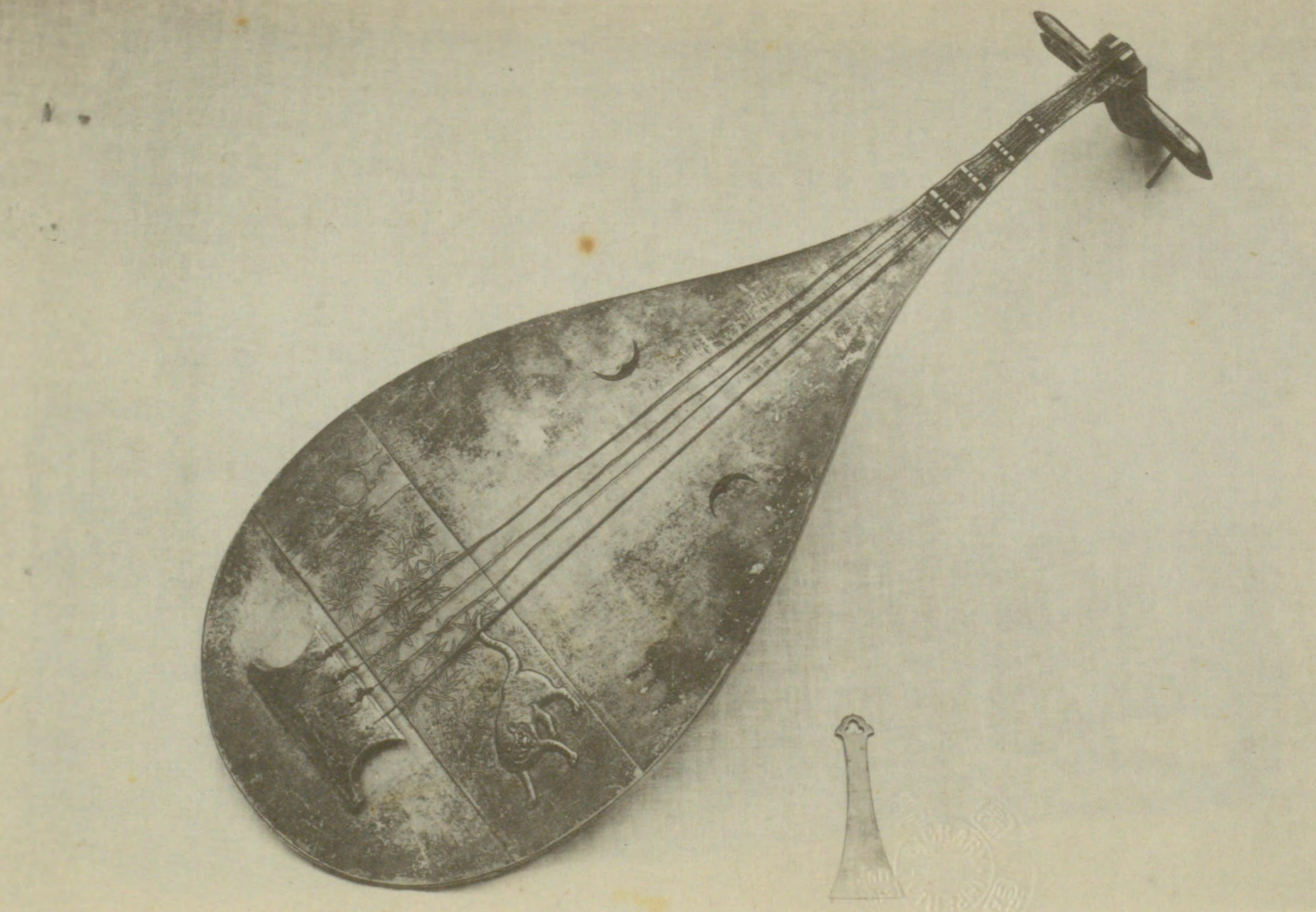 A gilt bronze biwa made in Kamakura period at Niutsuhime-jinja, Katsuragi, Wakayama prefecture. An Important Cultural Property of Japan.